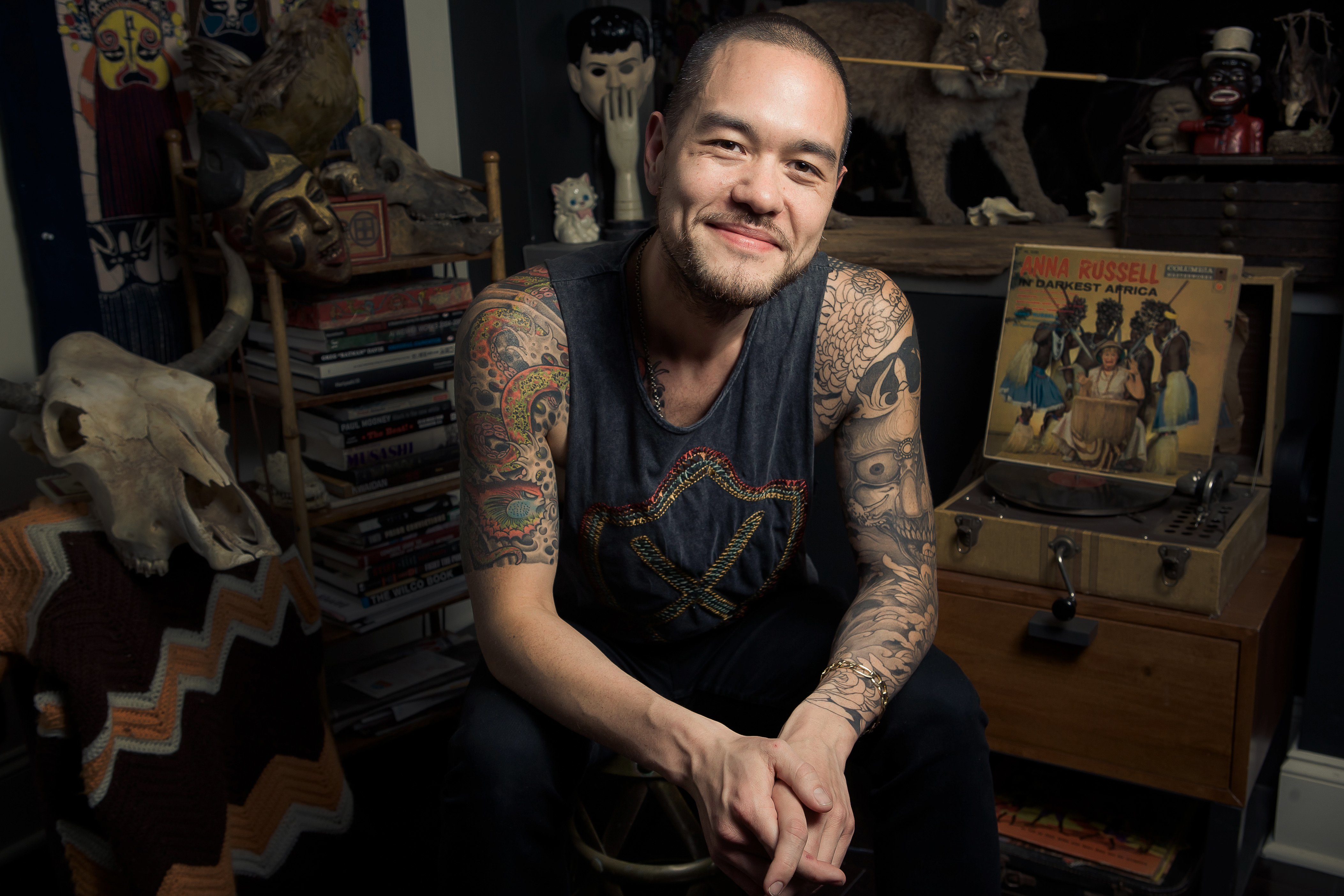 During a photo shoot for a tattoo magazine in his DTLA apartment.